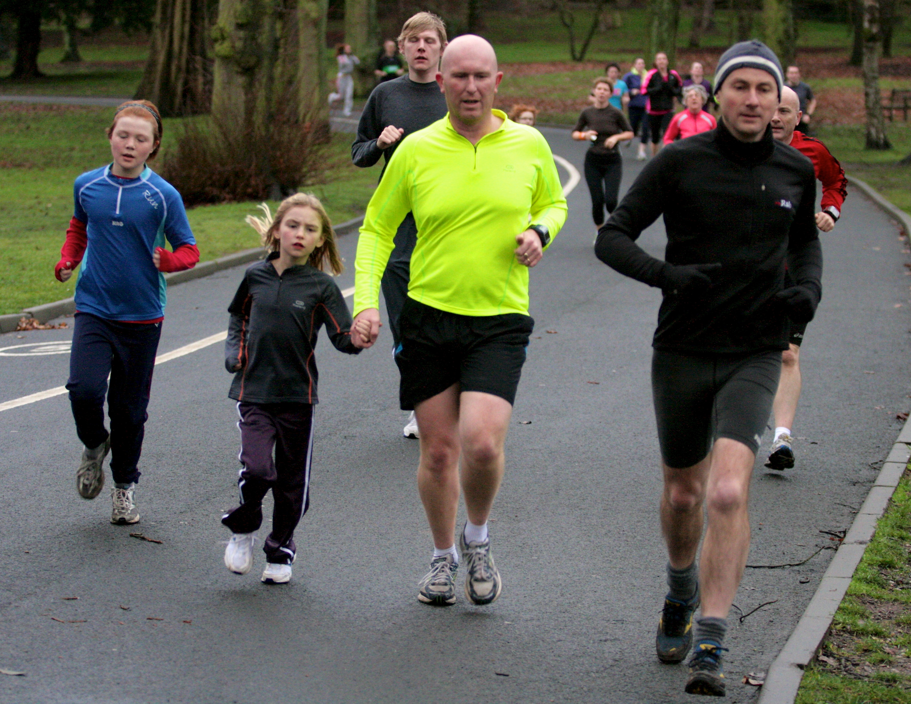 Cannon Hill parkrun event 71, Saturday 31st December 2011